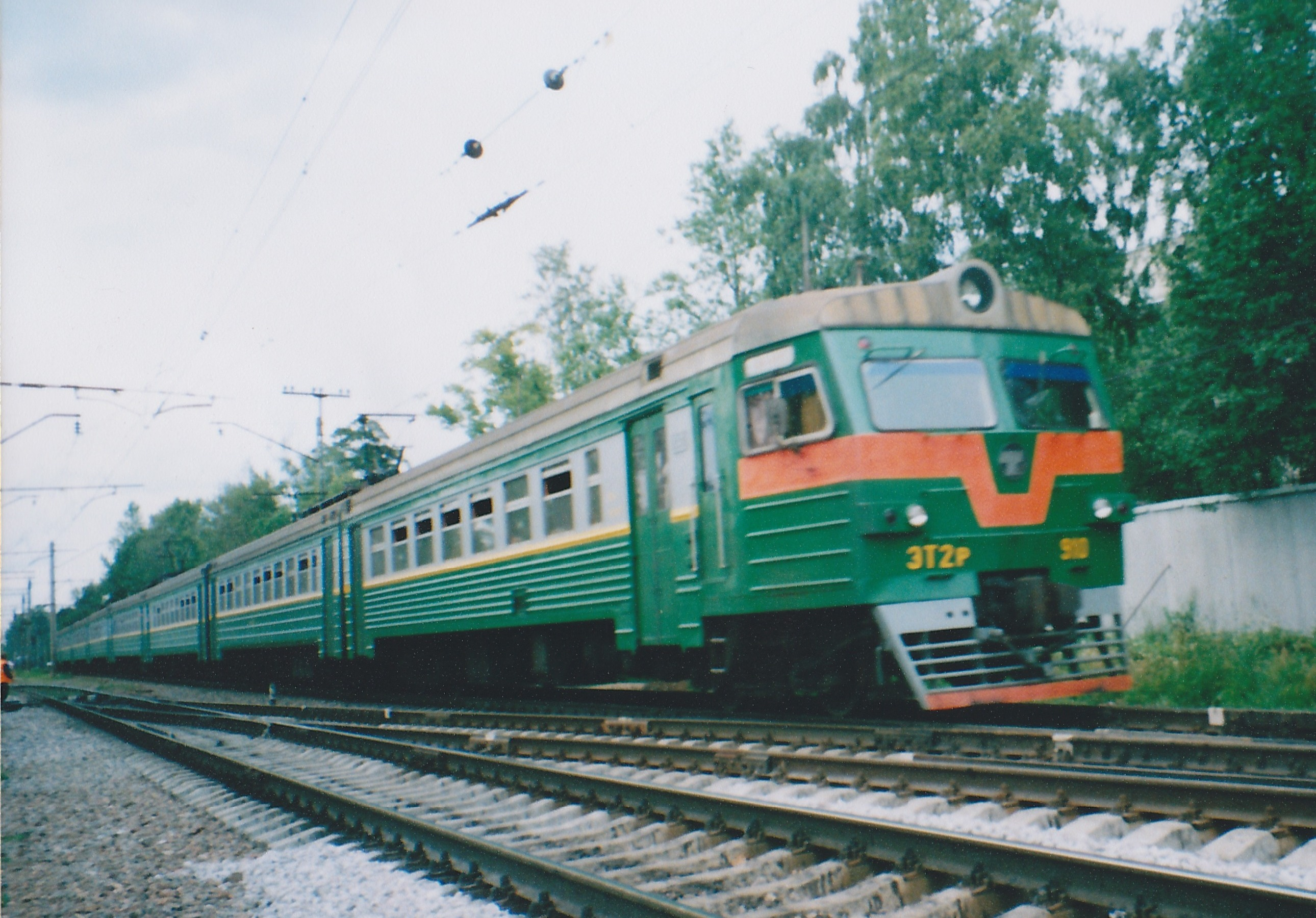 Electric multiple unit head railcar ET2R-910 with ER2 railcars near Shuvalovo railway station.